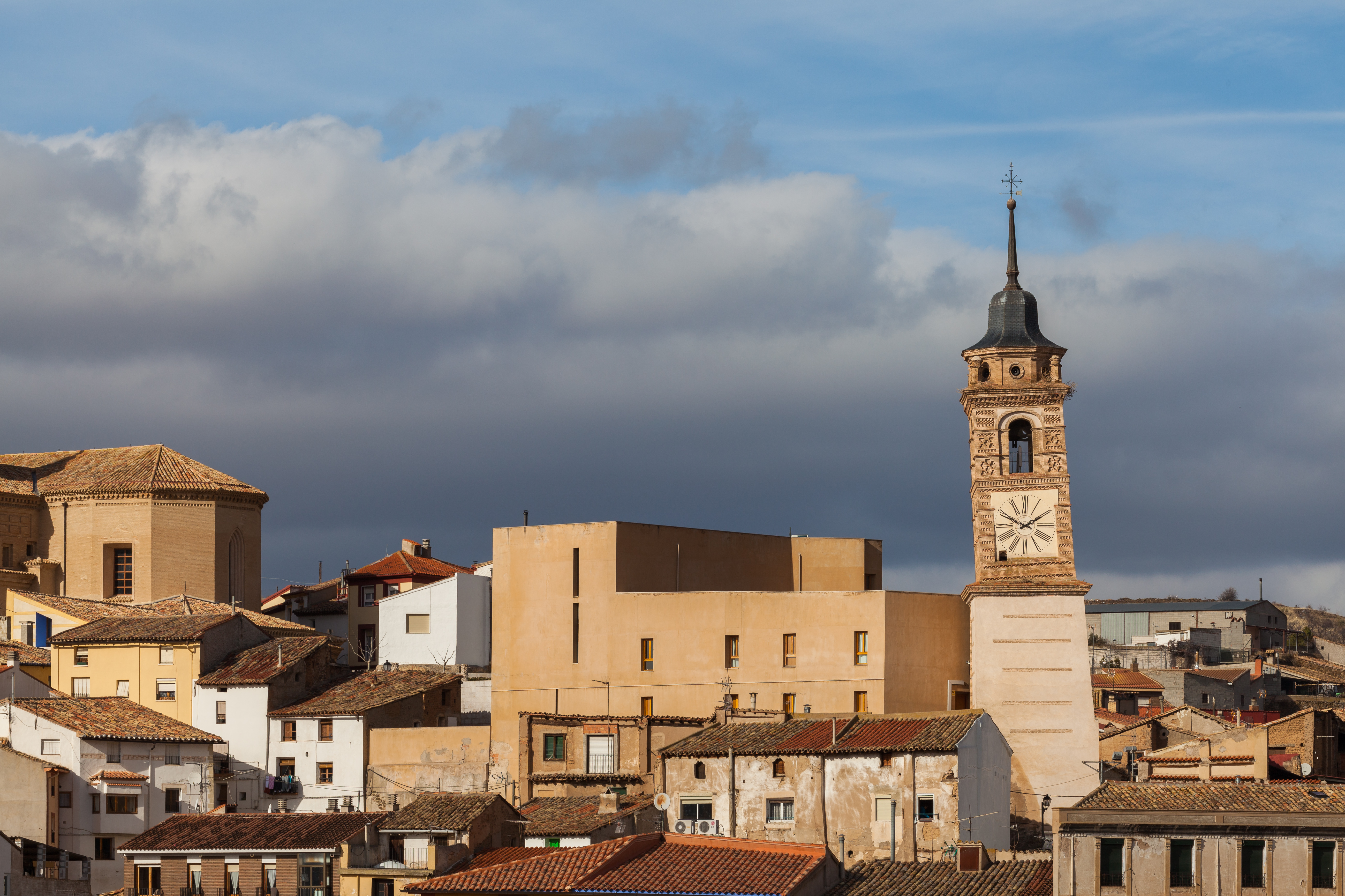 Castle, Ateca, Zaragoza, Spain